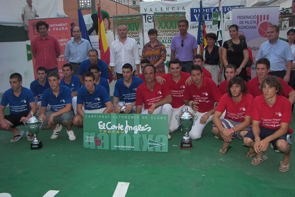 Champions of the XXXIV El Corte Inglés Trophy of Galotxa (Valencian Pilota). In red: Montserrat (the winners). In blue: Alfarb.